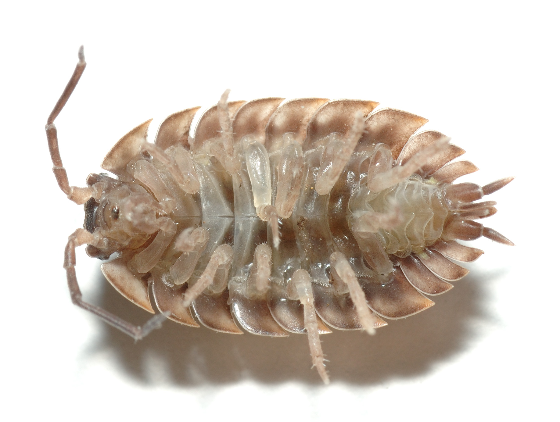 This image shows a 0.4 inch (10 mm) large female Common woodlouse (Oniscus asellus).